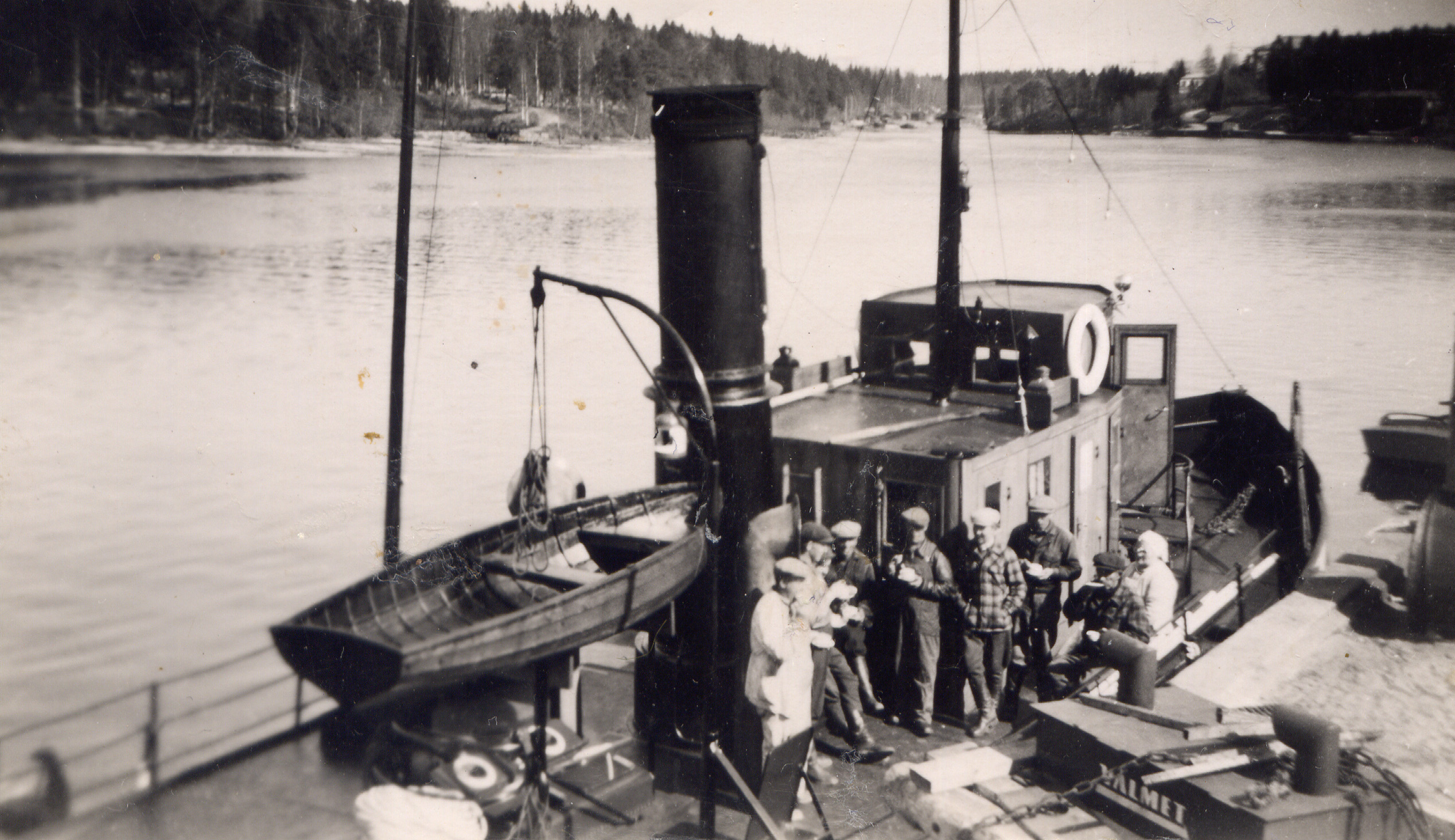 S/s Kajaani I on Kajaani river